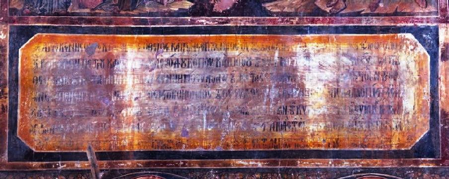 Saint Apostles Church in Kastoria Fresco, Onufri Argites, 1547